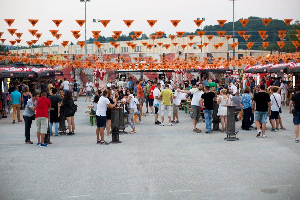 Ljetni festival Kistra